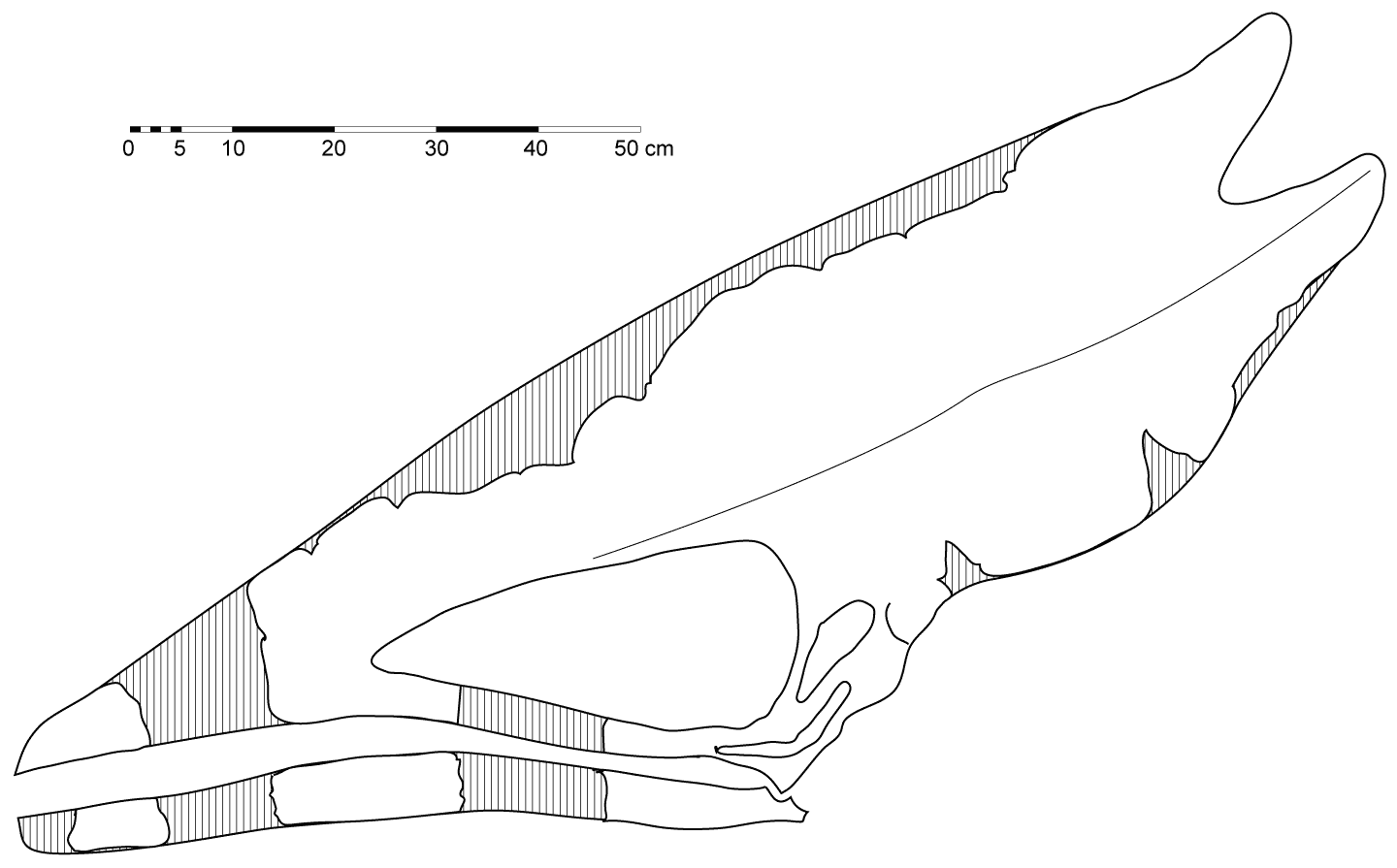 A reconstruction of the skull of the pterosaur Thalassodromeus sethi by John Conway [1], based on diagram in Kellner & Campos, 2002.